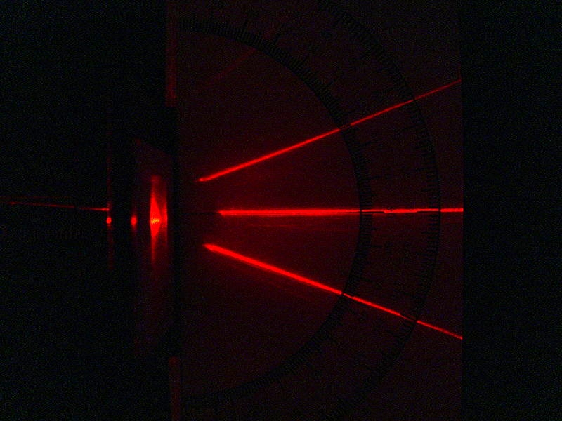 Modified version of Diffraction of laser beam on grating.JPG created by Barakitty. Brightness and contrast altered